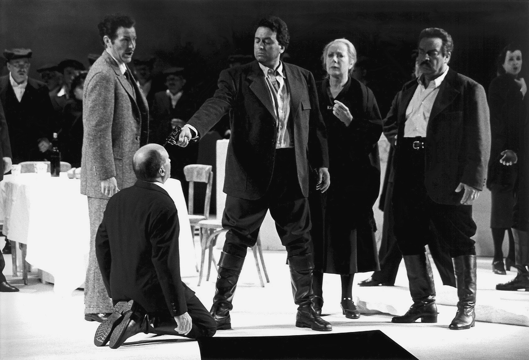 Scene from Lorenzo Ferrero's opera Salvatore Giuliano, a production of the Staatstheater Kassel, June 1996.